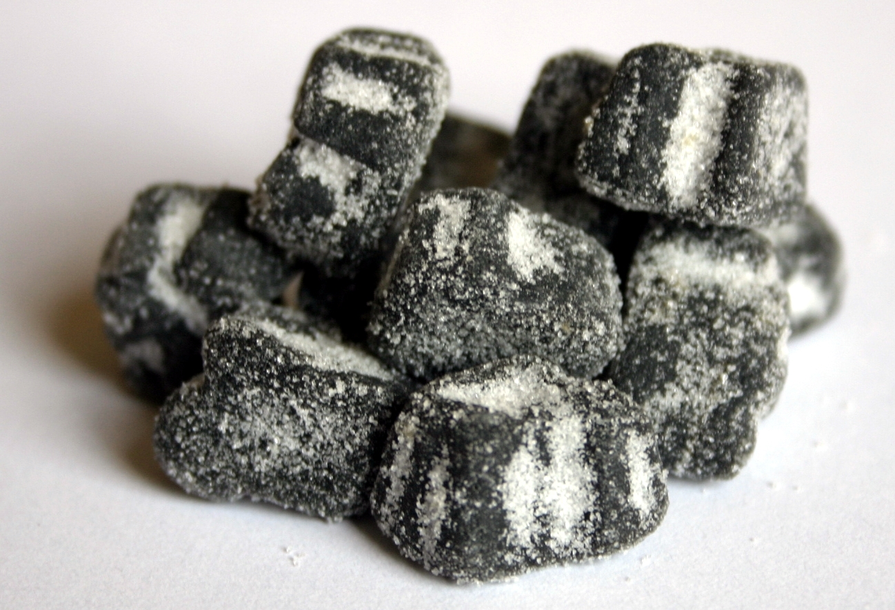 the roar of the djungle)